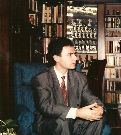 Photograph taken during the interview with Milo Rakočević in Chicago.